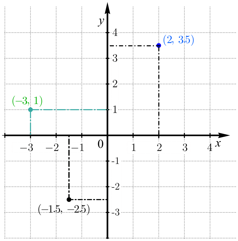 cartesian coordinate system